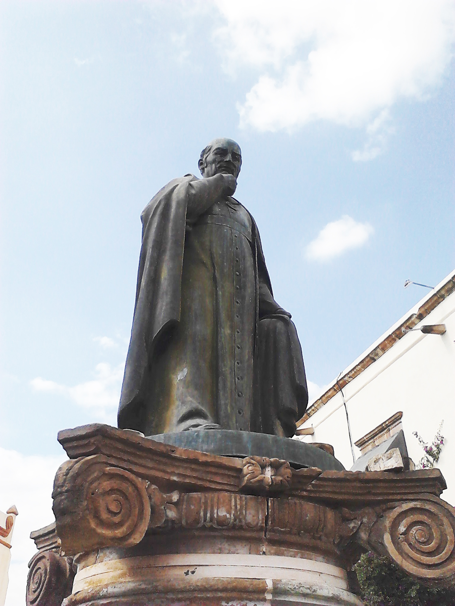 Life-size bronze sculpture artwork of Alberto Perez Soria depicting Juan Caballero y Ocio (1644 - 1707) a philanthropist who delivered funds for many religious buildings in Queretaro.